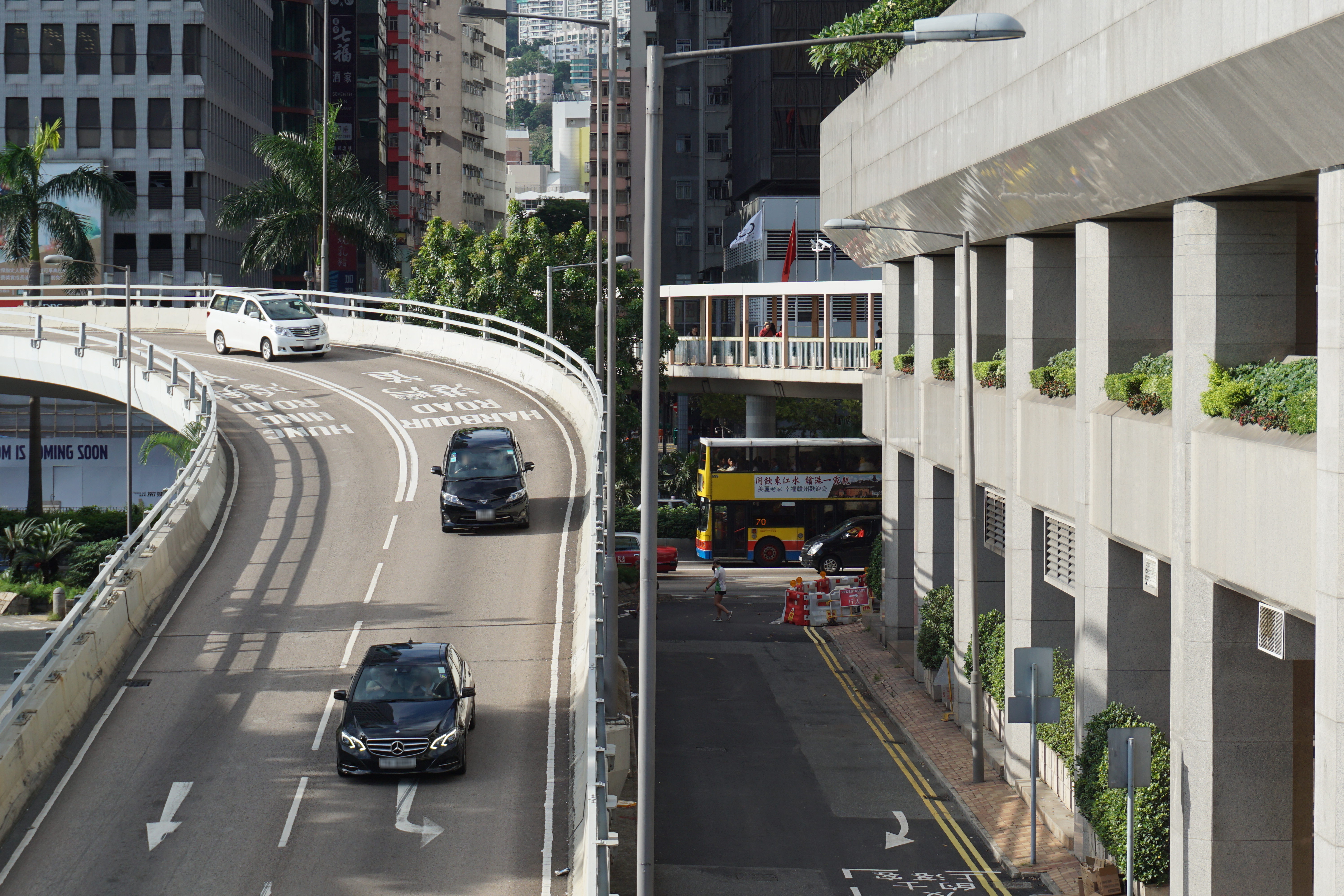 Site of Citybus tilted at Tonnochy Road in Wan Chai, Hong Kong. The incident claimed 5 lives and injured 57.